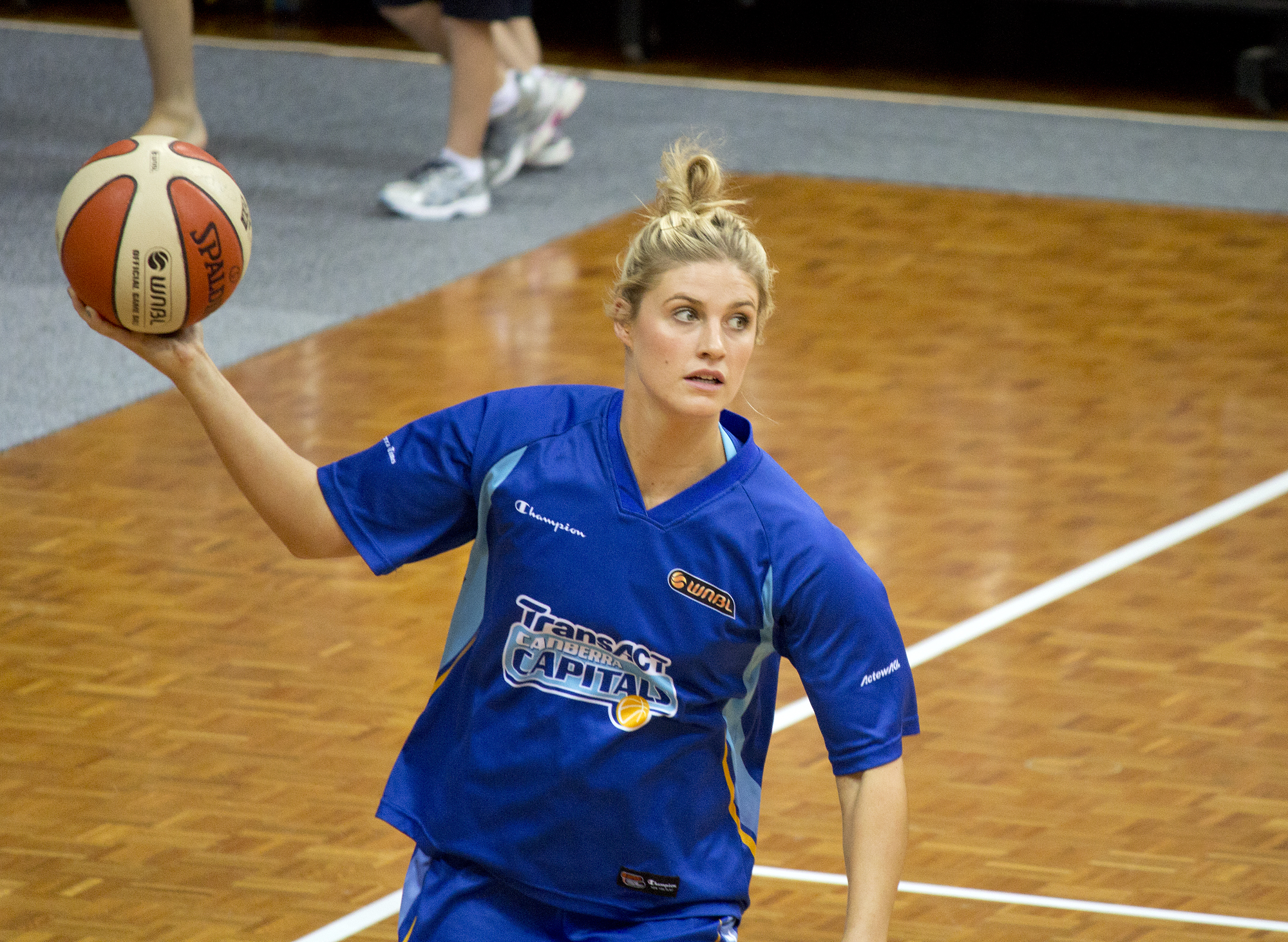 Molly Lewis at the Canberra Capitals vs Logan Thunder held at AIS Arena at the Australian Institute of Sport